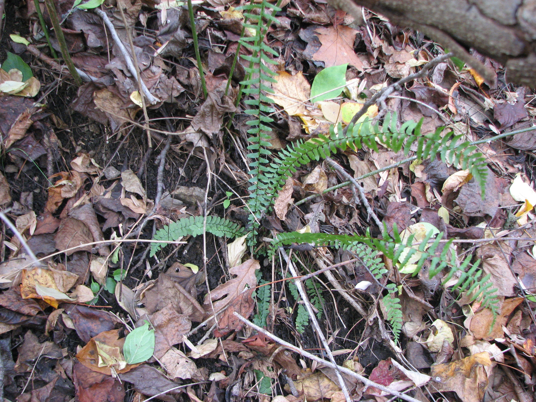 Clump of Asplenium platyneuron fronds, showing fertile and sterile frond dimorphism. Woodlawn Trustees property (or Brandywine Creek State Park); in valley of Rocky Run.